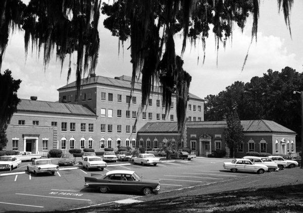 Florida A&M Hospital, 1965